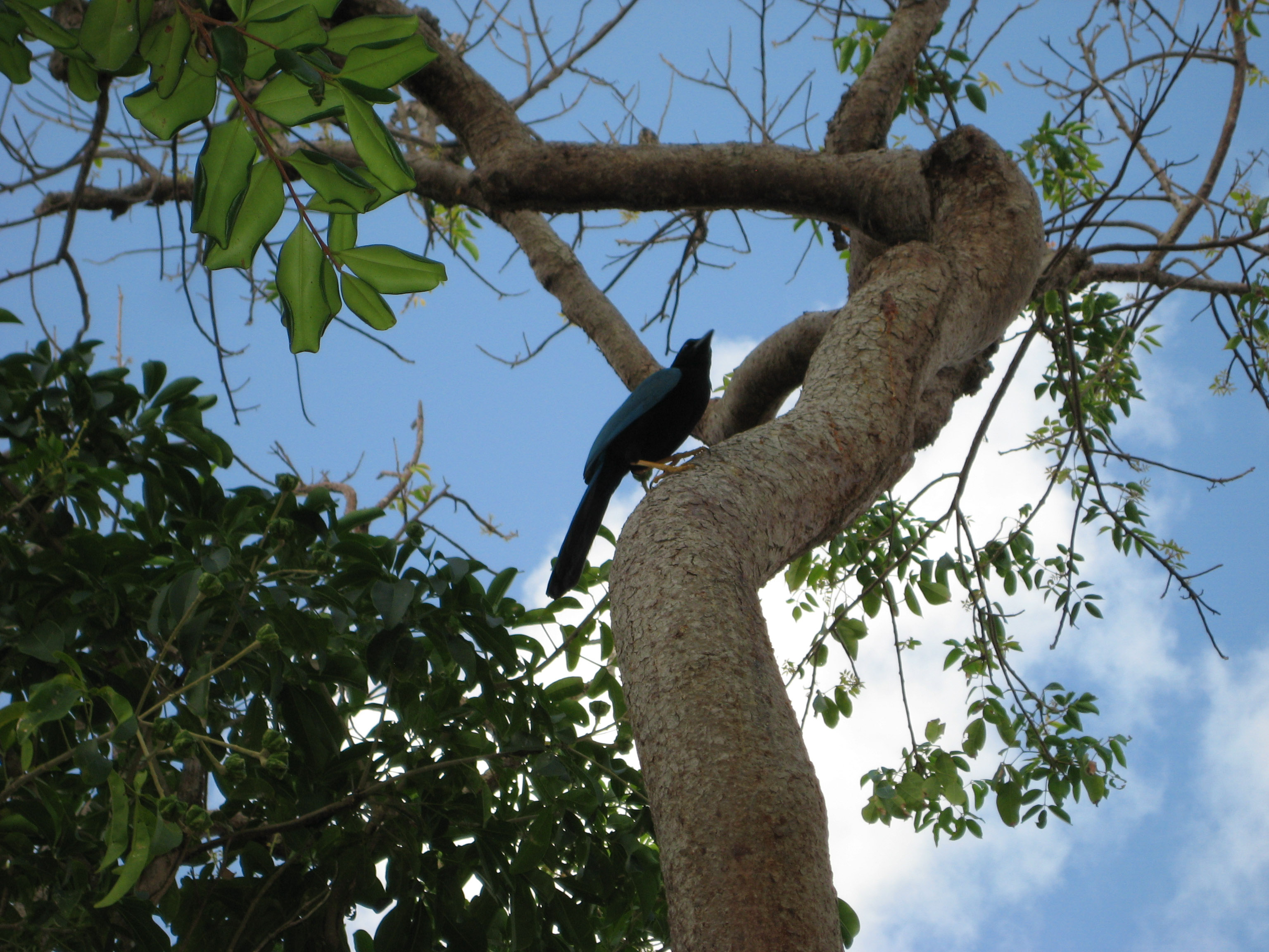 Yucatan Jay in Quintana Roo, Mexico.